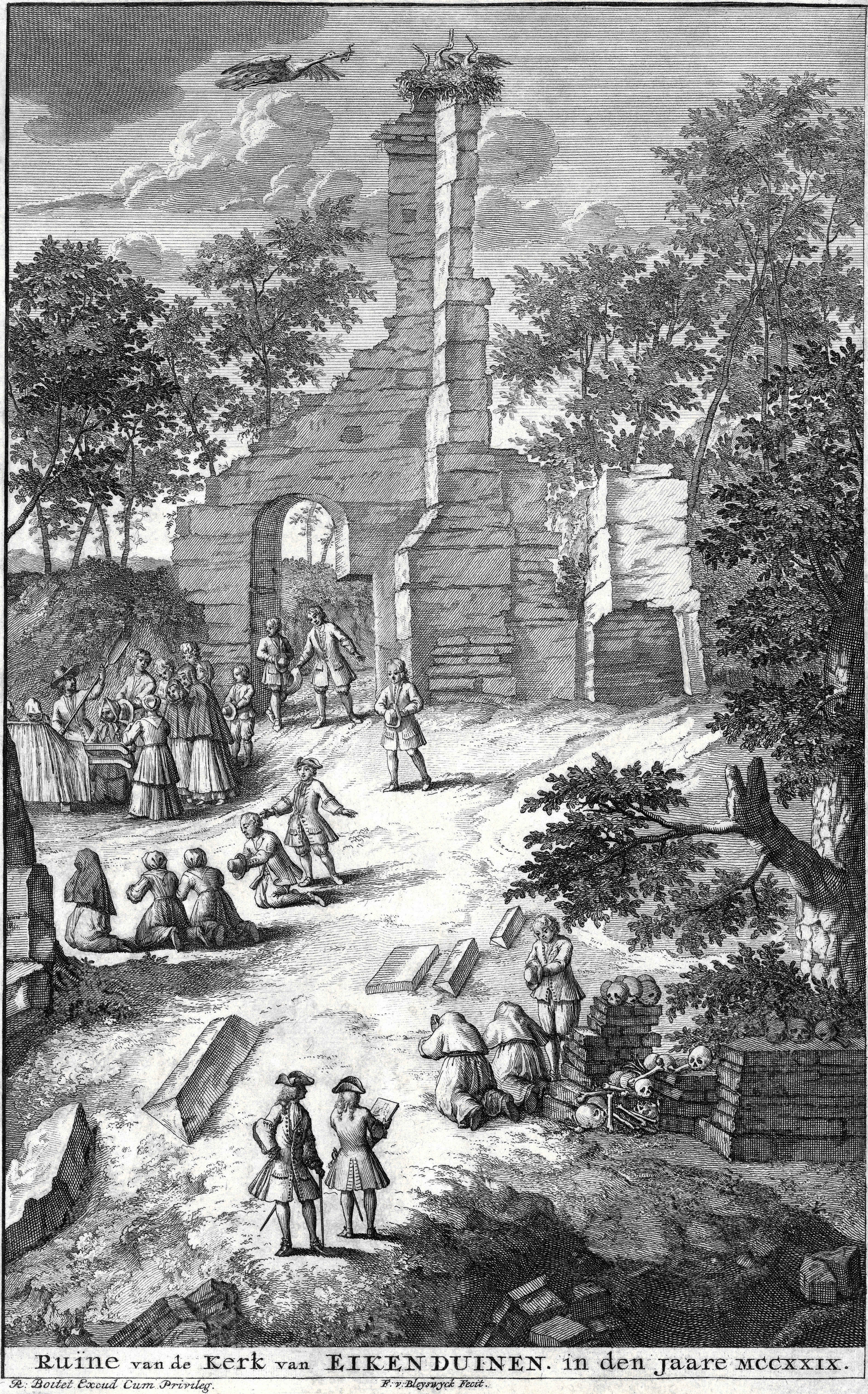 Church ruin of Eikenduinen near The Hague in 1729. The place being visited by pilgrims and there is a burial taking place.